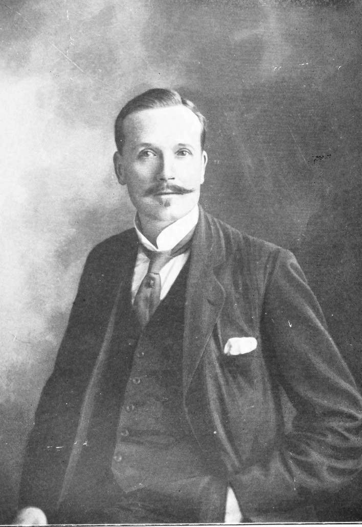 Harold Powell, amateur entomologist